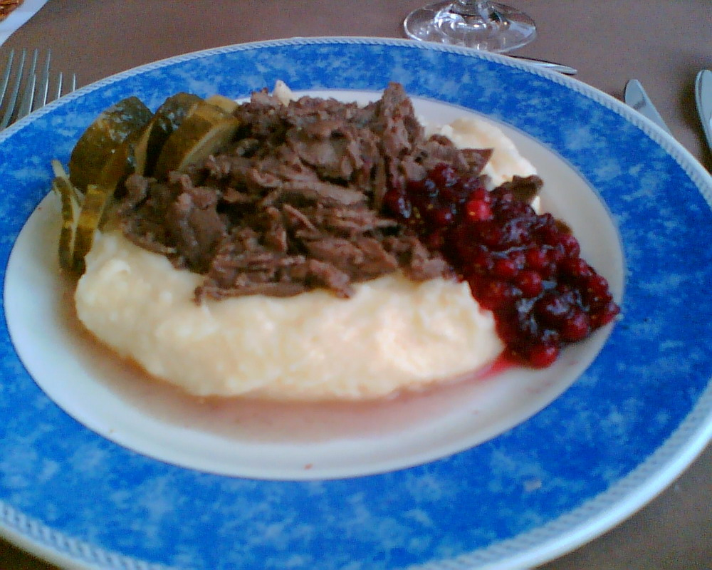 Sautéed reindeer with mashed potatoes, lingonberry and gherkin. Photo taken with Nokia 6230i in a restaurant (Hotel Jeris, Muonio, Finland. Thanks!)